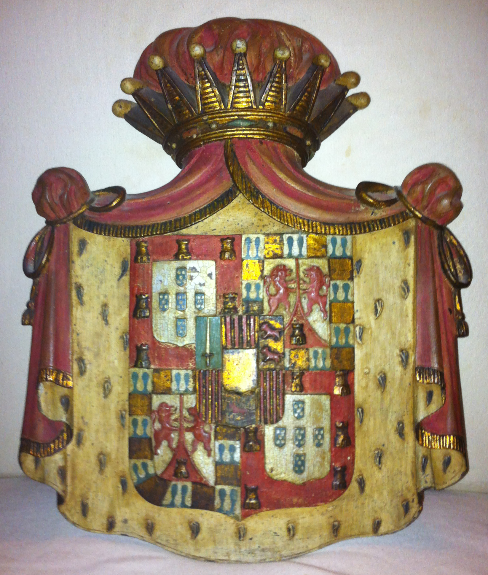 Coat of arms - Family NORONHA